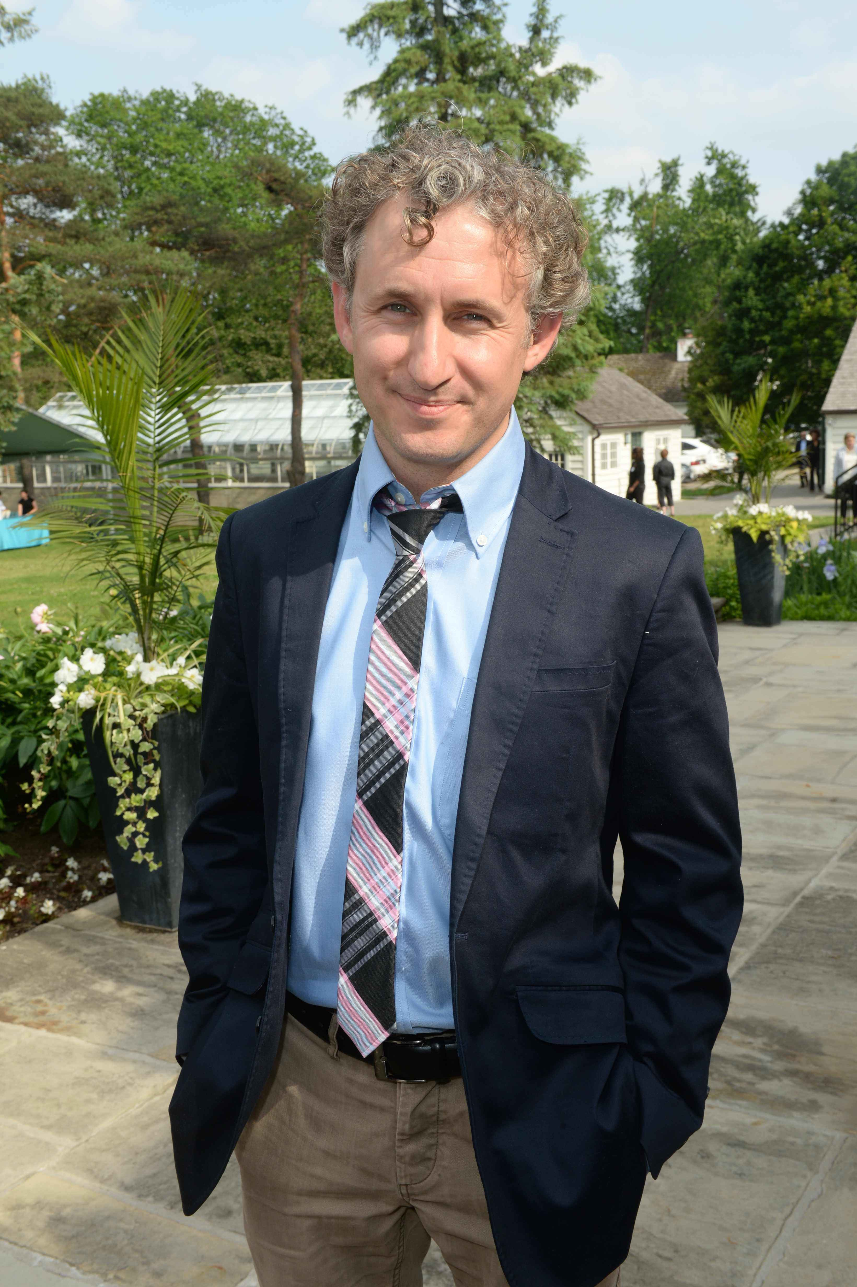 Performer Michael Therriault Photography by: Tom Sandler